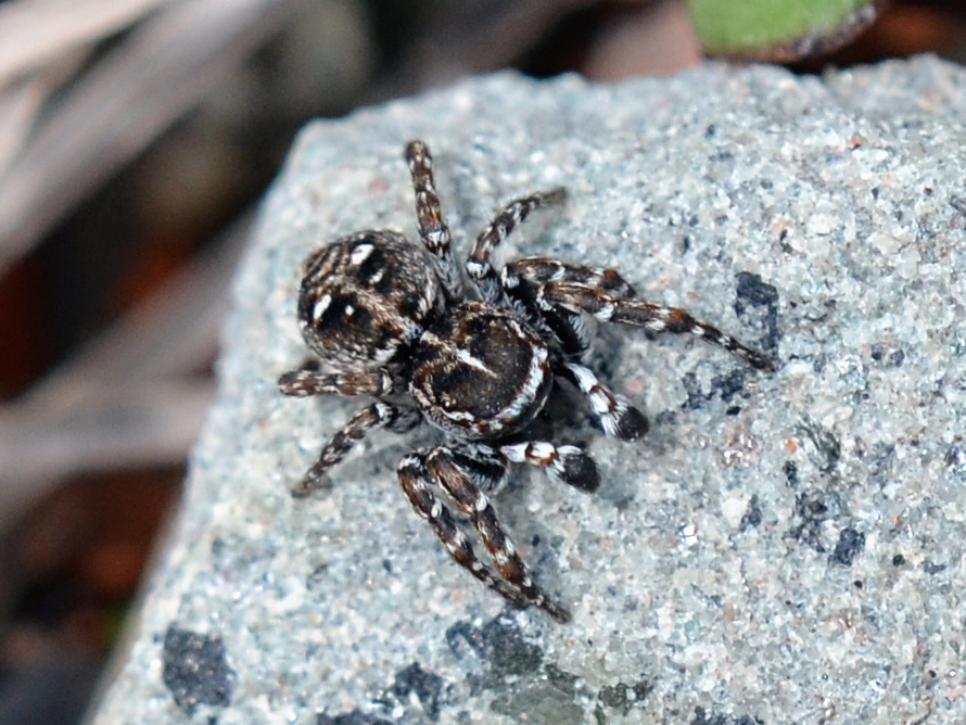 Calositticus floricola palustris in New Brunswick, Canada